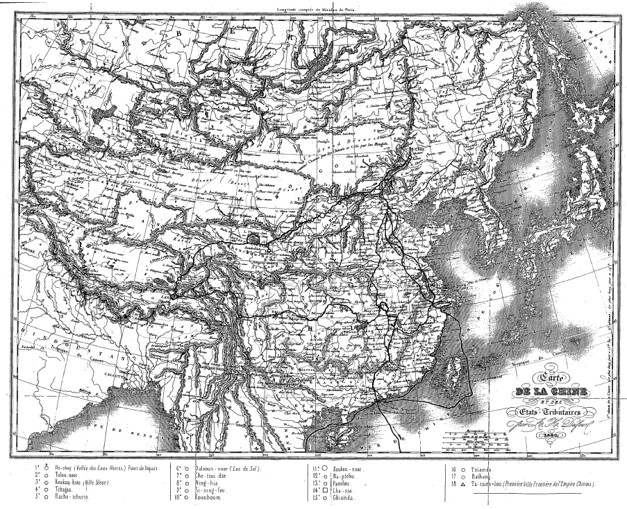 A clear version of a small French National Library scan of Dufour's 1840 "Map of China and Its Tributary States", used in Huc's 1853 2nd edition of his Remembrances of a Voyage in Tartary, Tibet, and China during the Years 1844, 1845, and 1846 with a dark line tracing the route of Huc and his fellow missionary Joseph Gabet. Note that this line is correct and includes his sea voyages, as opposed to the erroneous route traced in the 1st edition which confused Huc's route with Dufour's illustration of the Grand Canal.The Yellow River is still shown following its lower course from before the massive floods of the 1850s.Shanghai is entirely omitted as less important than Hangzhou (Hang-tcheou), Suzhou (Sou-tcheou), and Songjiang (Song-kiang, entirely misplaced to the north bank of the Yangtze).Some important places along Huc's route have been marked in the map and noted in a legend at the bottom of the page.Note that Huc & Gabet did not carry Dufour's map but one of those printed by Andriveau-Goujon like this.